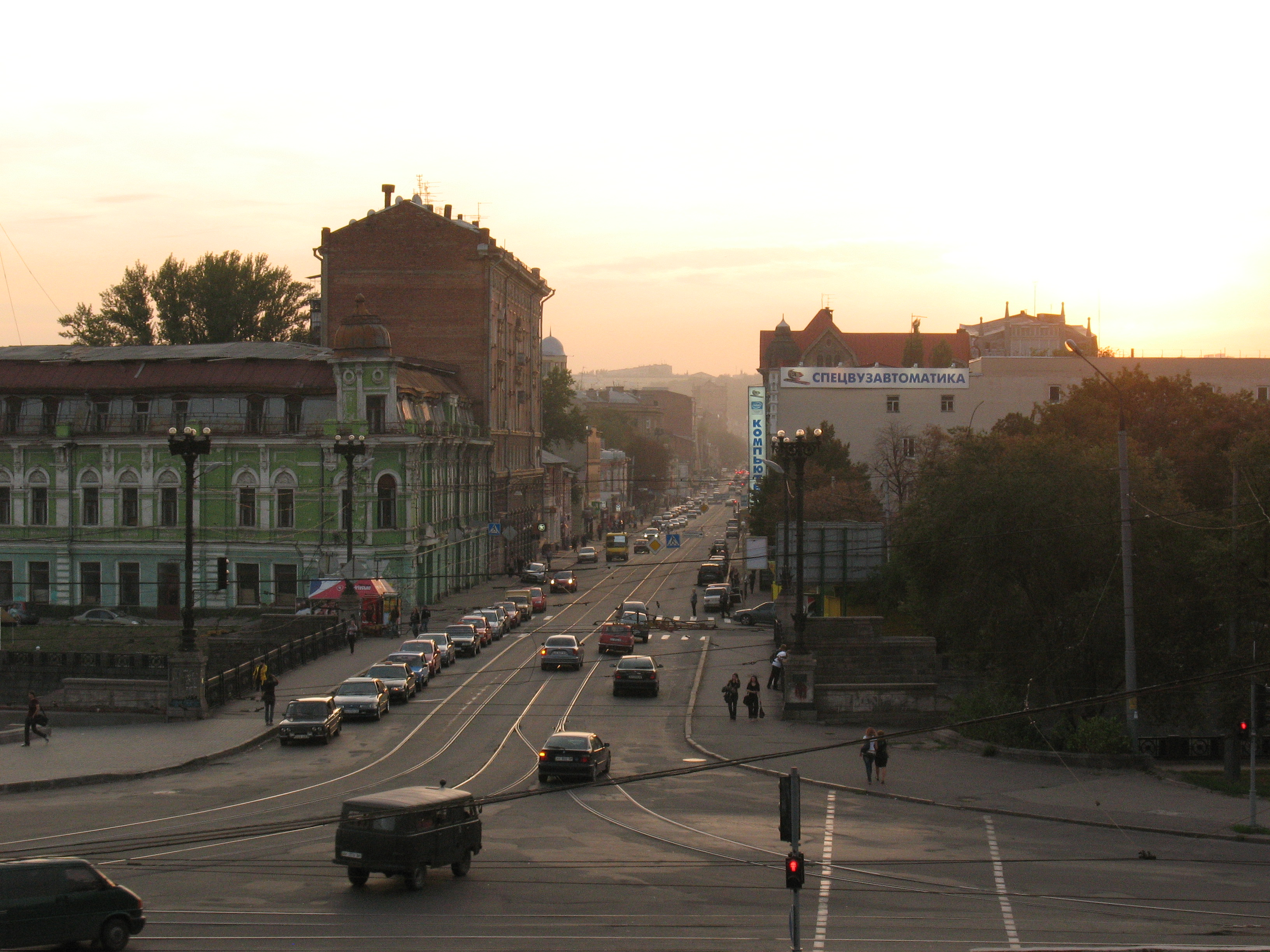 Kharkov City. Полтавский шлях street. Sunset.